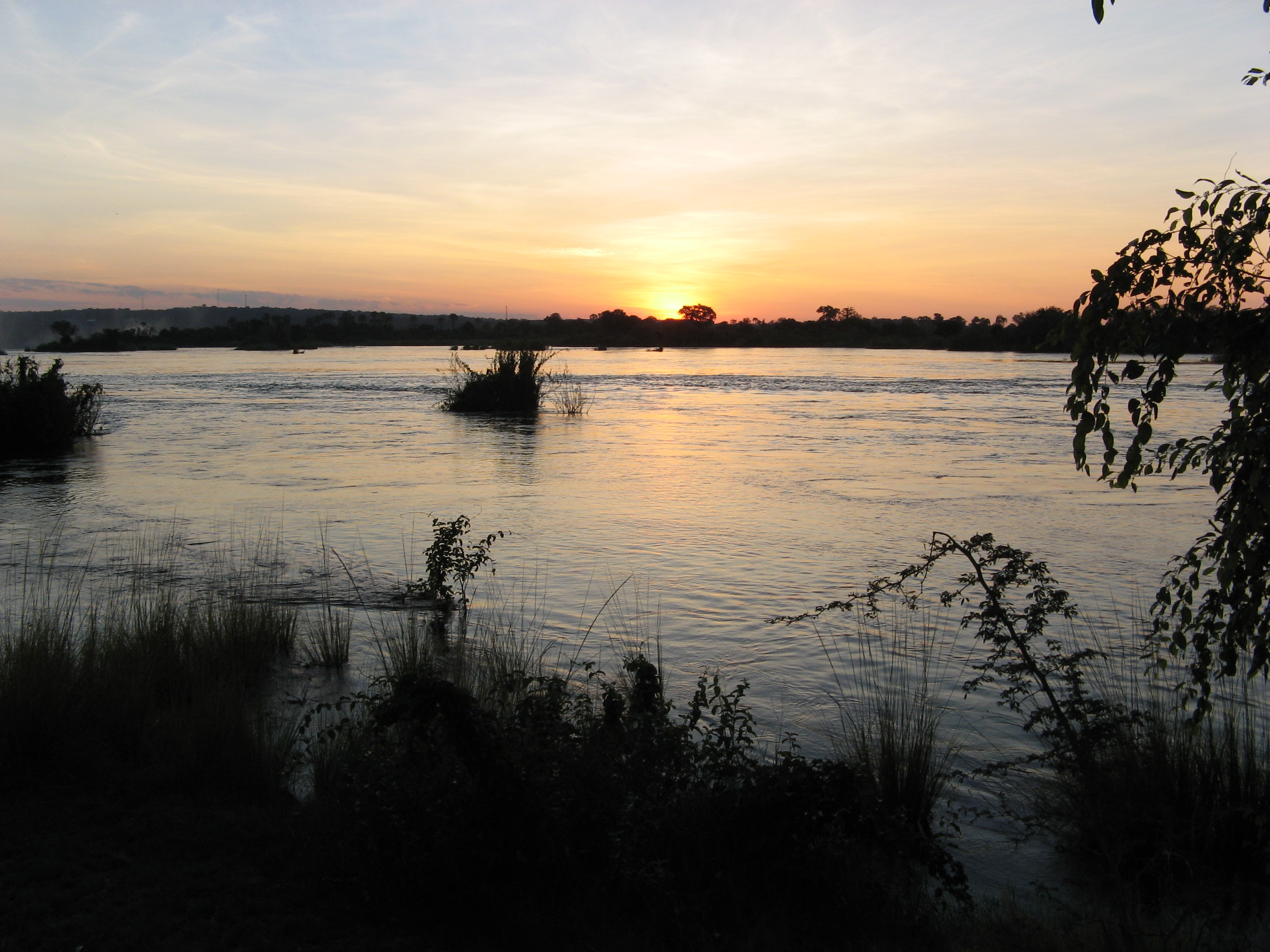 Sunset at the Zambezi river